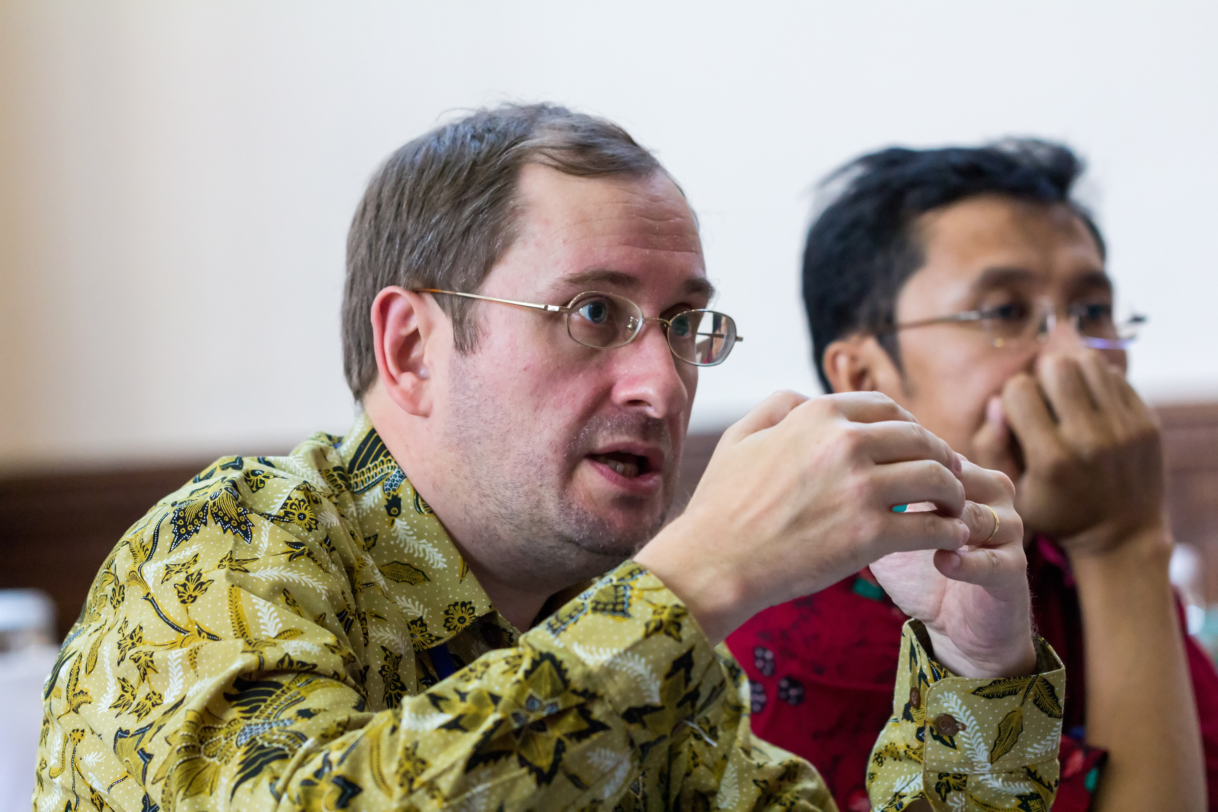 Frank Dhont of the International Indonesia Forum at the 7th IFF Conference, 2014-08-20